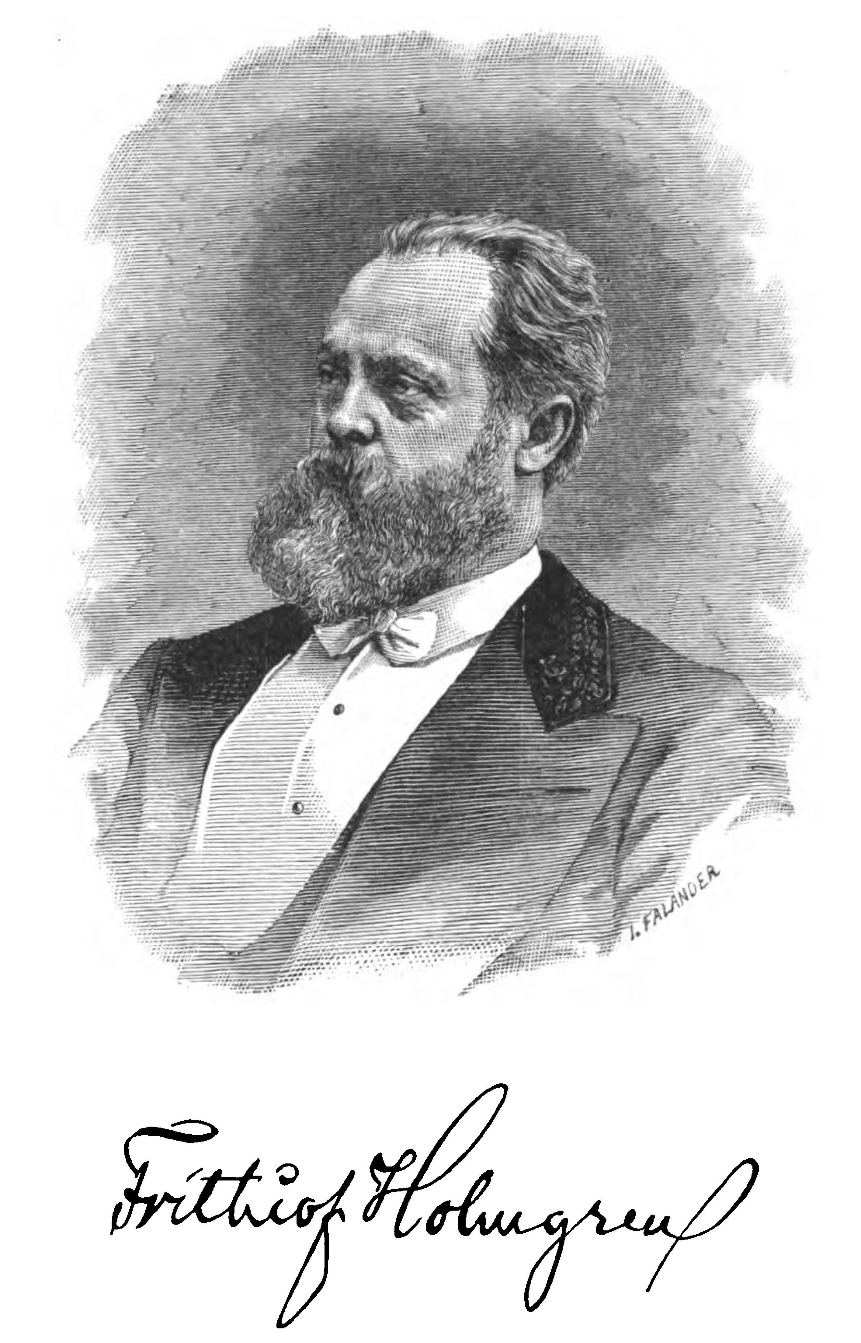 FRitiof Holmgren (1831-1897), Swedish physiologist.